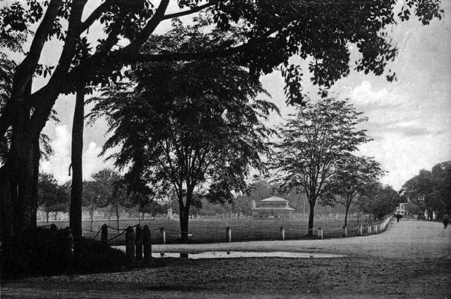 The Esplanade.